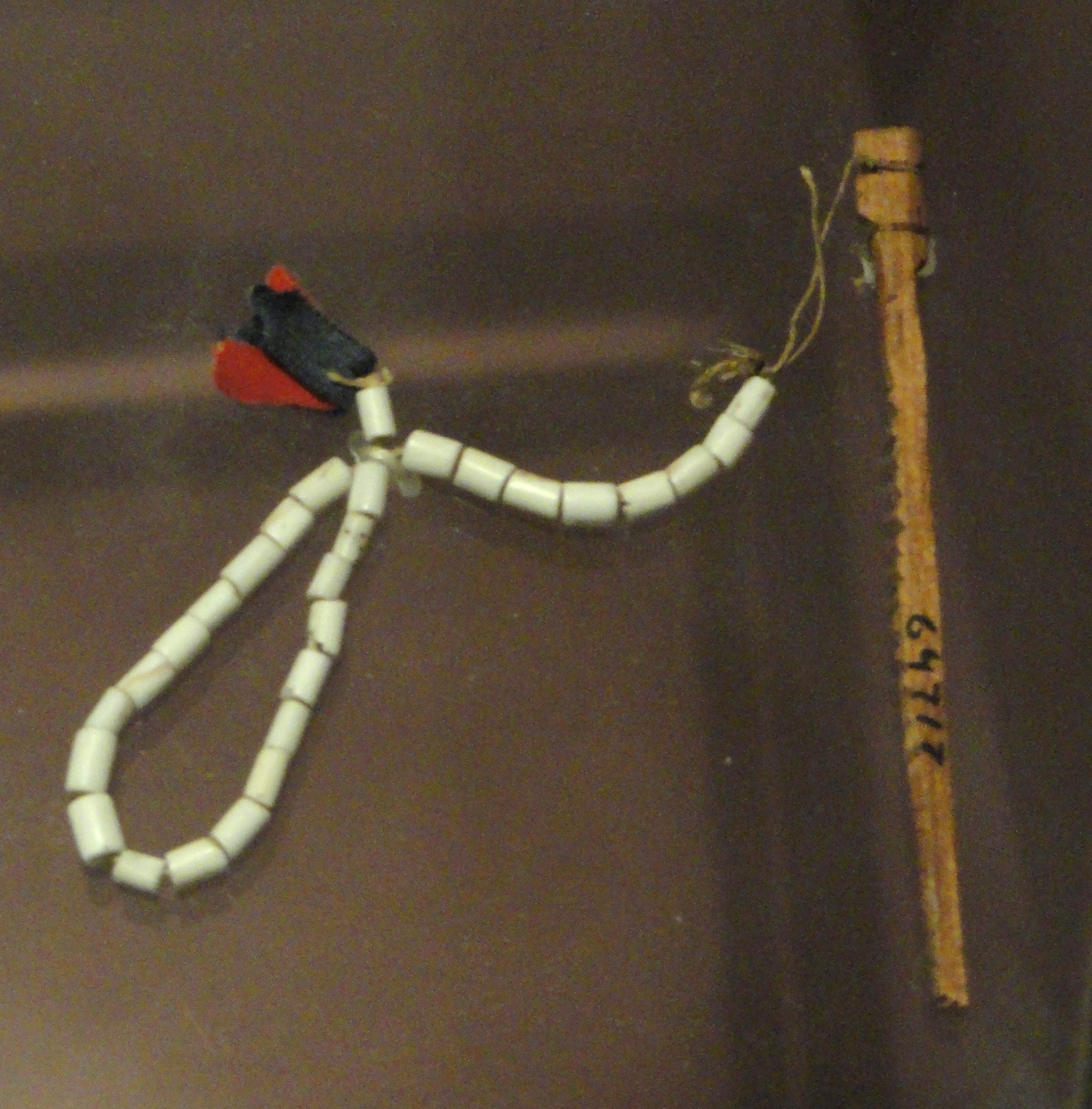 Message stick, Seneca, inviting tribes to Six Nations dance, received in 1905. Exhibit from the Native American Collection, Peabody Museum, Harvard University, Cambridge, Massachusetts, USA. Photography was permitted without restriction; exhibit is old enough so that it is in the public domain.